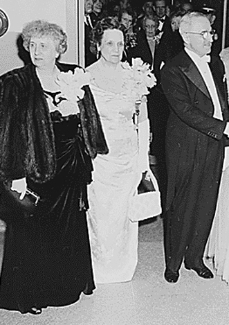 From left: First Lady Bess Truman, Ambassador Perle Mesta, President Harry S. Truman